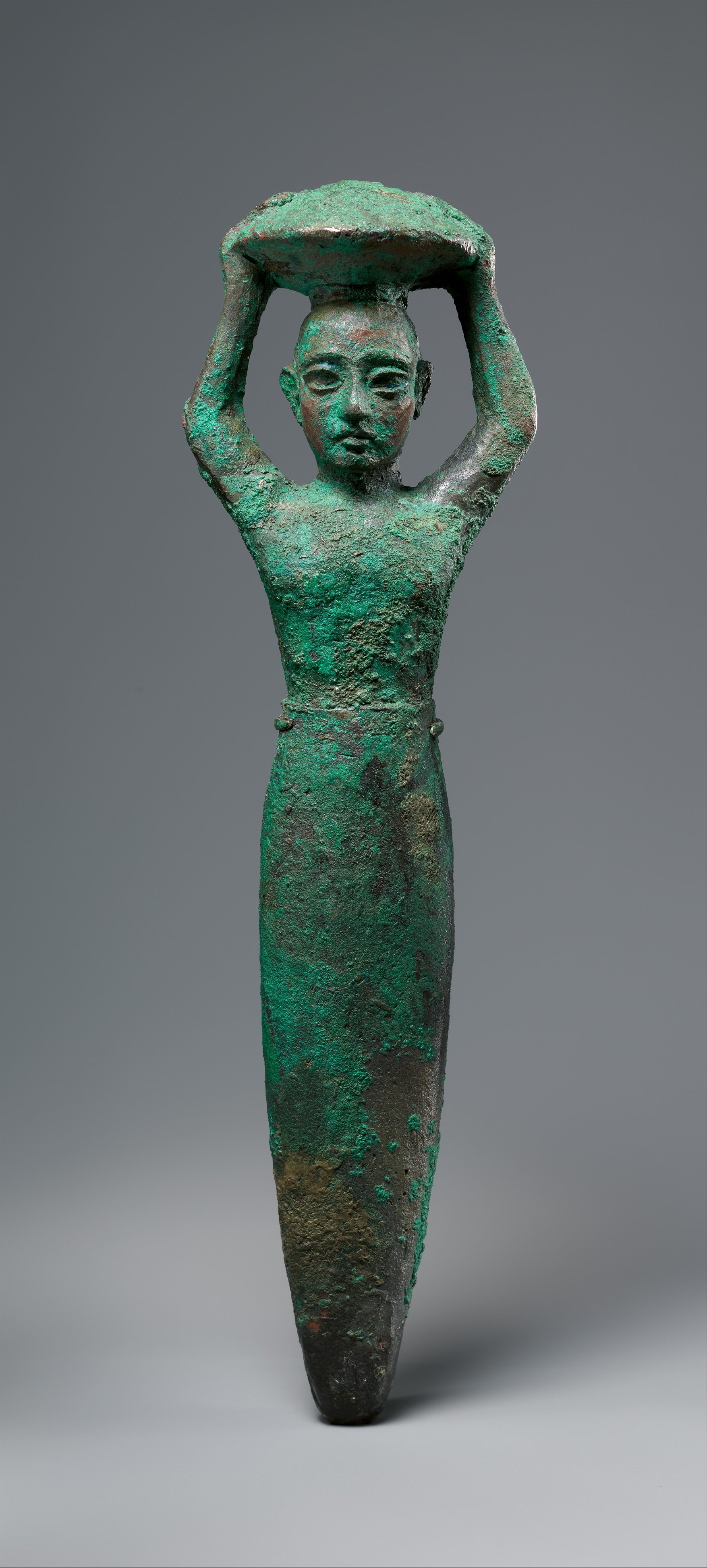 Neo-Sumerian; Foundation figure; Metalwork-Sculpture